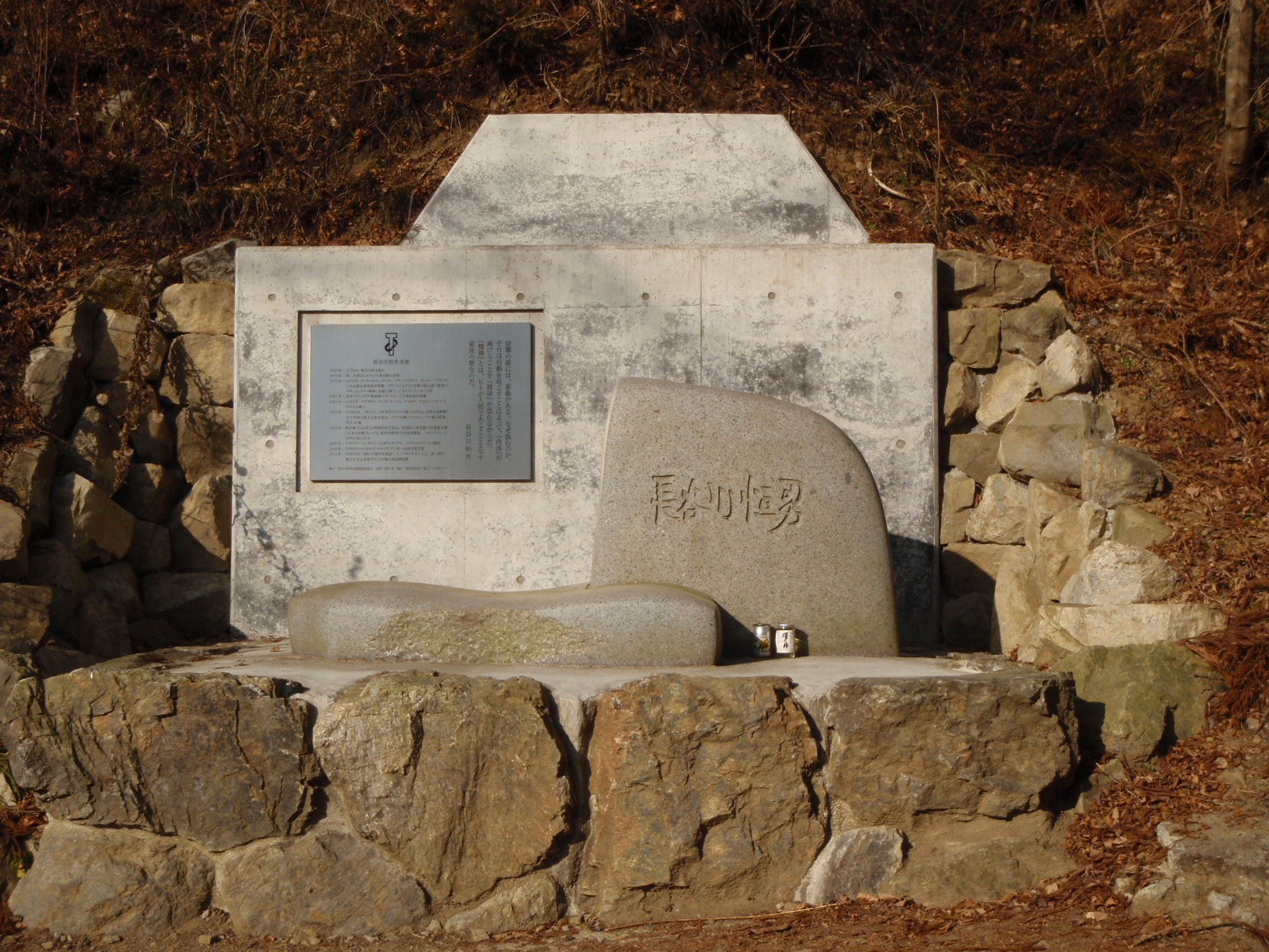 Monument in honor of Tsuneo Hasegawa at Mount Mitake